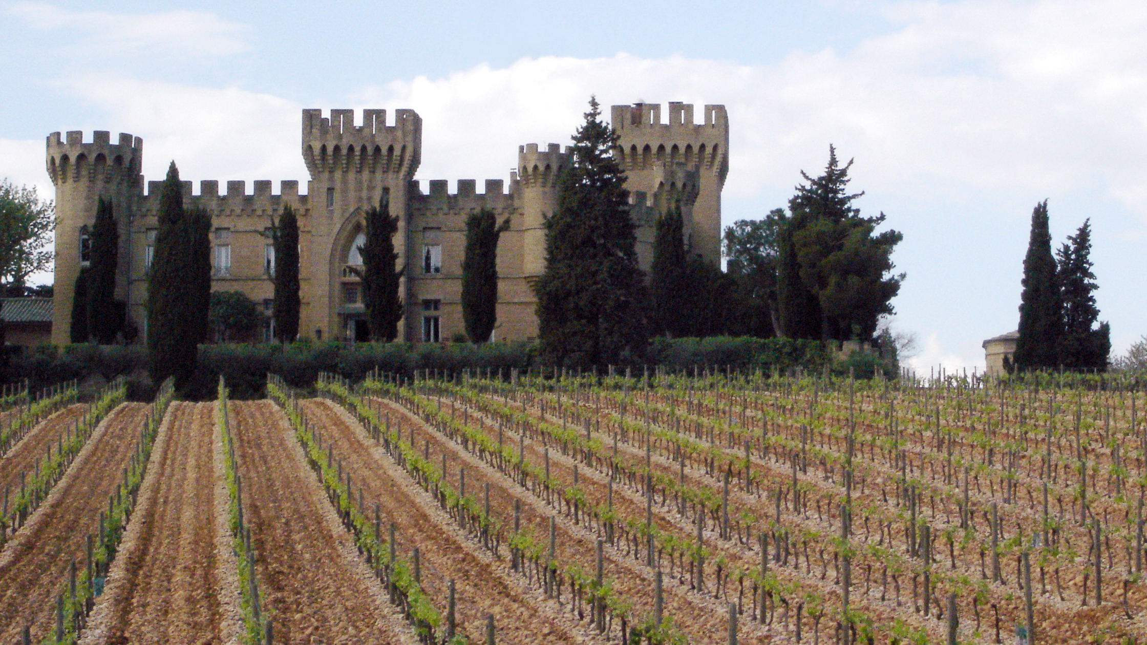 Châteauneuf-du-Pape Castle and vineyard, Rhône region, southeastern France.